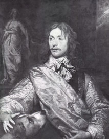 Sir Thomas Chicheley (c1618-1699)